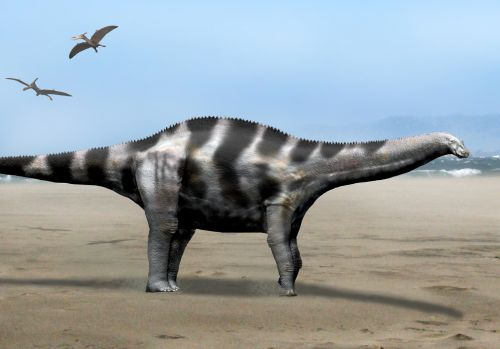 Demandasaurus